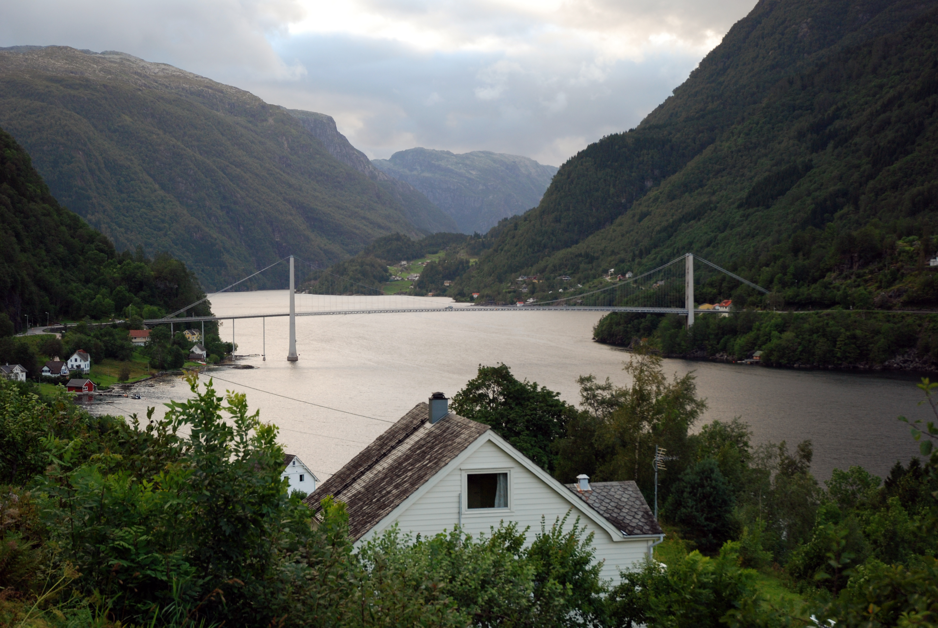 Fyksesund bru. Rv. 7, Kvam kommune, Hordaland.